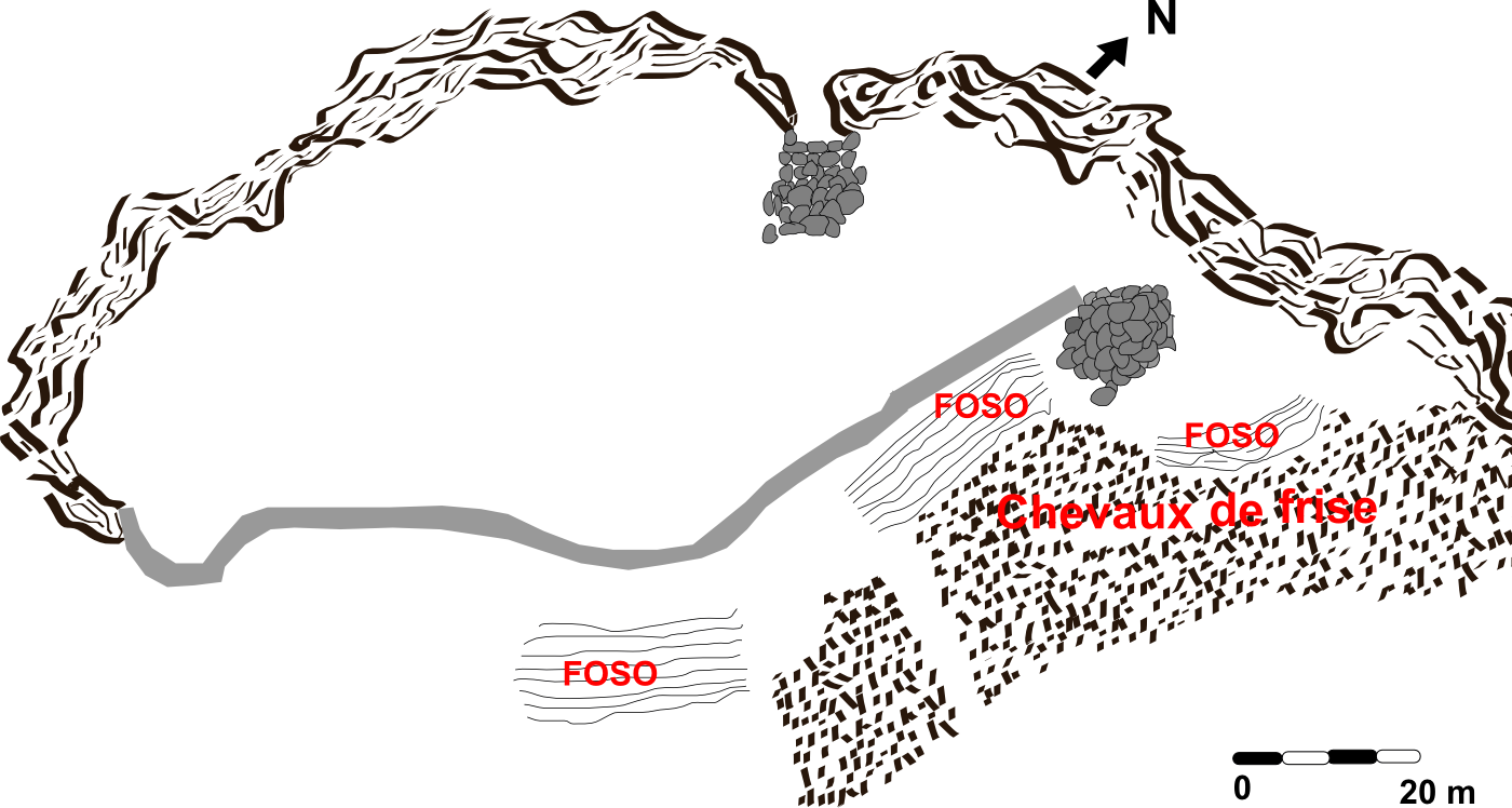 Hocincavero map celtiberian fort. Anguita, province of Guadalajara, Spain.